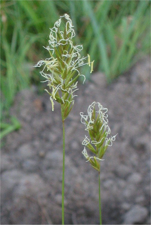 Aira preacox spike